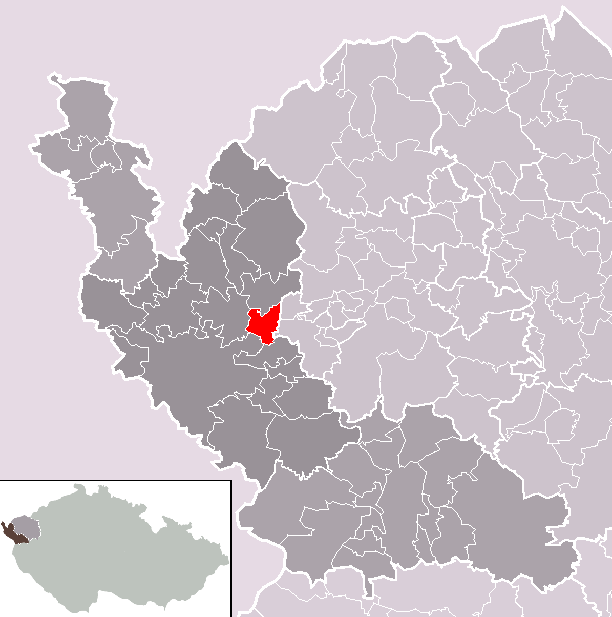 Location of Nebanice municipality within Cheb District and administrative area of Cheb as a Municipality with Extended Competence.